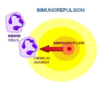 immunorepulsion